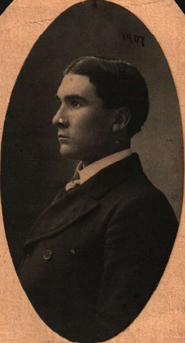 Yanko Marinov